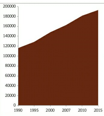 Population growth of Valencia from 1990 to 2015 census.